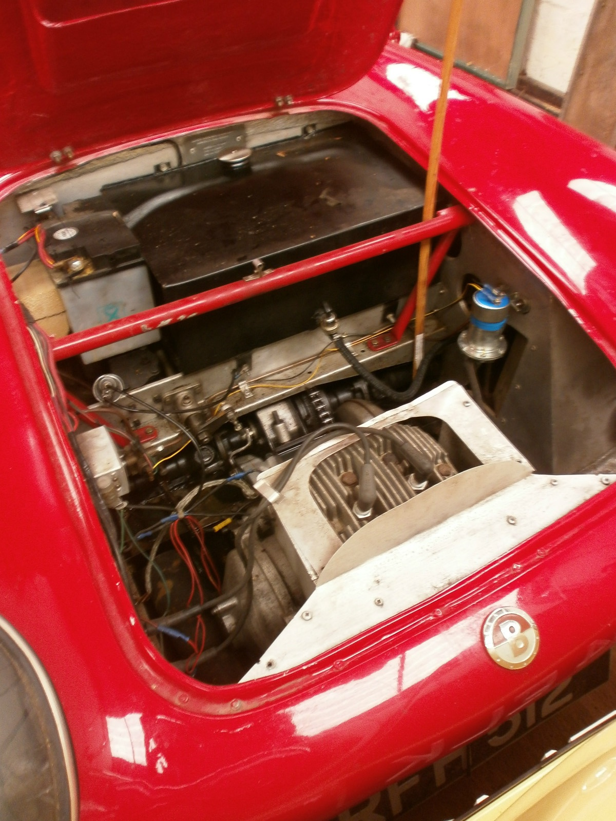 Powered by a 322cc Anzani engine producing 15bhp. Only 163 cars were made with this engine before the Excelsior 328cc unit replaced it.